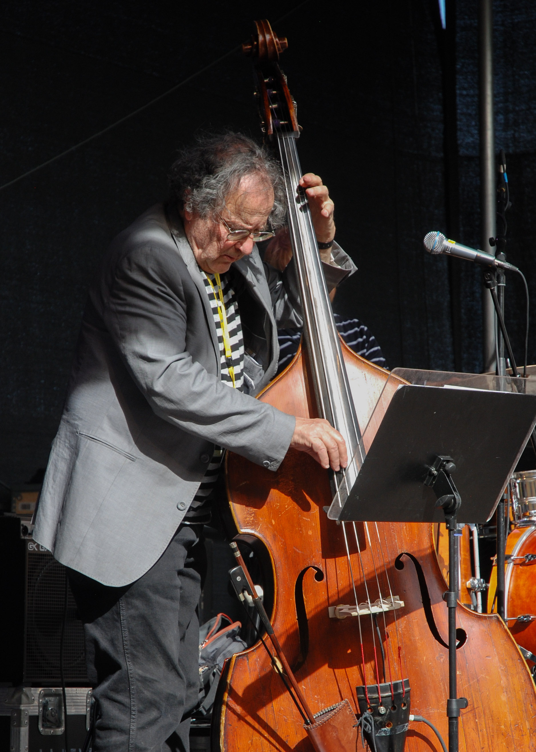 Swedish Jazz Musician Georg Riedel at Stockholm Jazz Festival, June 2010